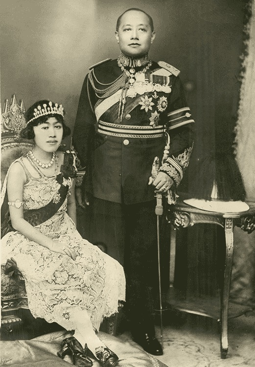 Indrasakdi Sachi and and Vajiravudh